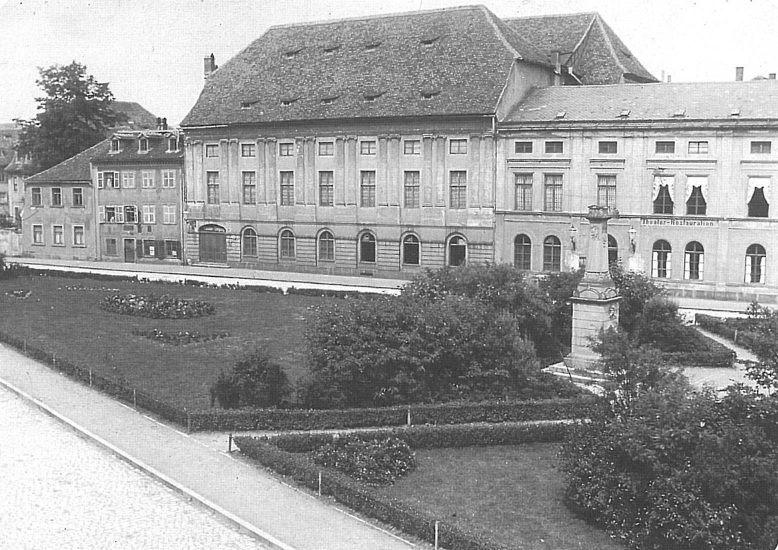 historic photography by Alois Erhard in Bamberg, Germany